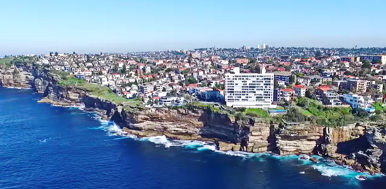 The cliff-top, hilly suburb of Dover Heights in Sydney, Australia